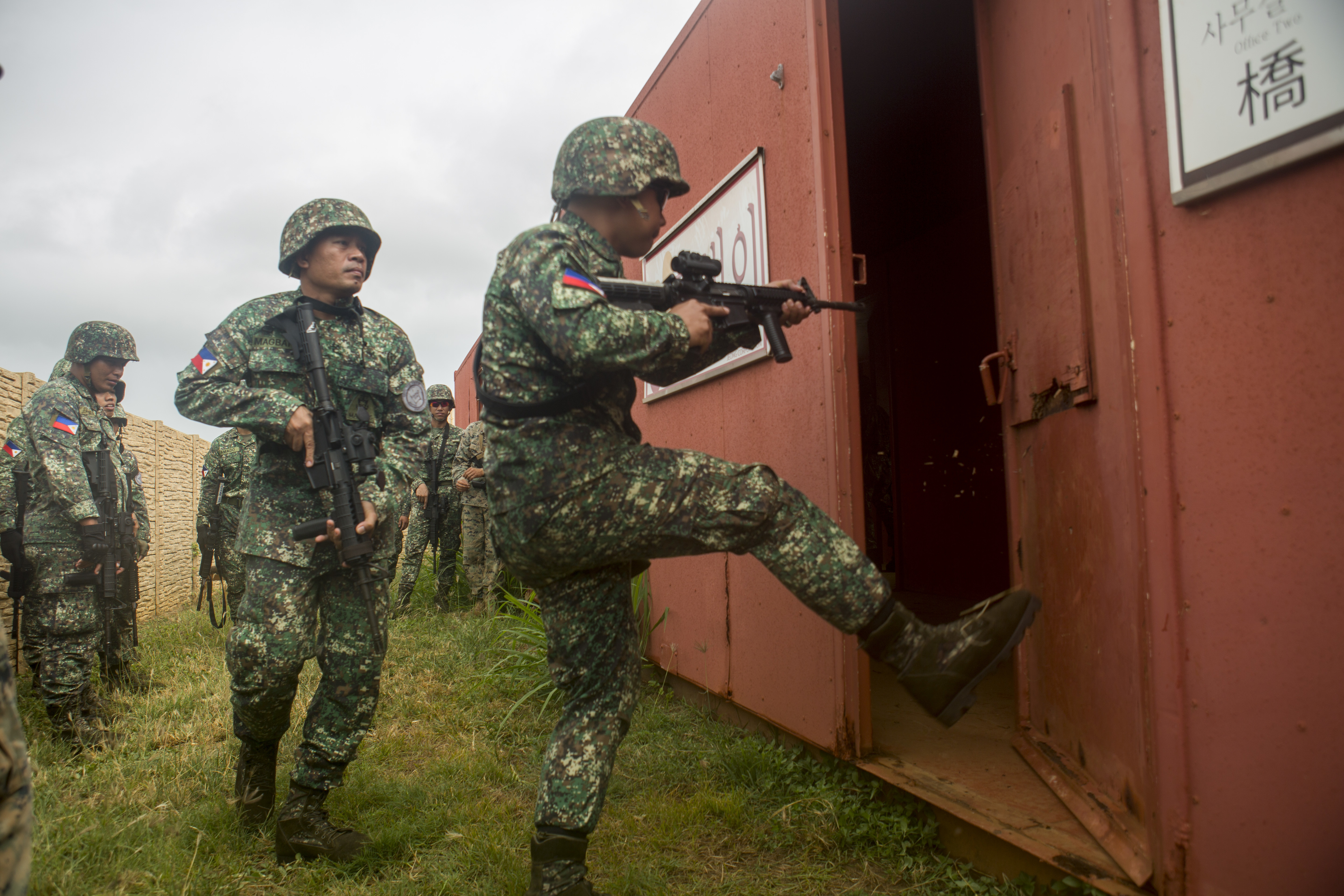 180628-M-ZO893-0114 MARINE CORPS BASE HAWAII (June 28, 2018) A Philippine Marine kicks in a door to clear a room during urban operations training as part of the Rim of the Pacific (RIMPAC) exercise aboard Marine Corps Base Hawaii June 28, 2018. Marines training with the U.S. Navy and partner nations from around the world enhances prowess. RIMPAC provides high-value training for task-organized, highly-capable Marine Air-Ground Task Force and enhances the critical crisis response capability of U.S. Marines in the Pacific. Twenty-five nations, more than 45 ships and submarines, about 200 aircraft, and 25,000 personnel are participating in RIMPAC from June 27 to Aug. 2 in and around the Hawaiian Islands and Southern California. (U.S. Marine Corps photo by Sgt. Zachary Orr)